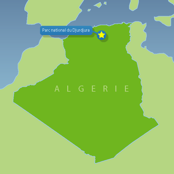 Map of National parks of Algeria, Djurdjura National park